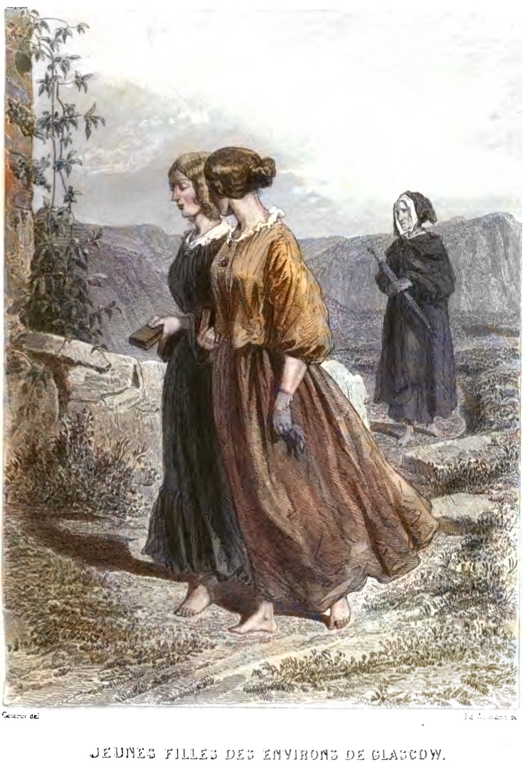 Printing from "Angleterre, Écosse, Irlande : Voyage Pittoresque" by french reporter Louis Énault (1859), entitled "Jeunes Filles des Environs de Glasgow" (Young Girls from the Glasgow Region).